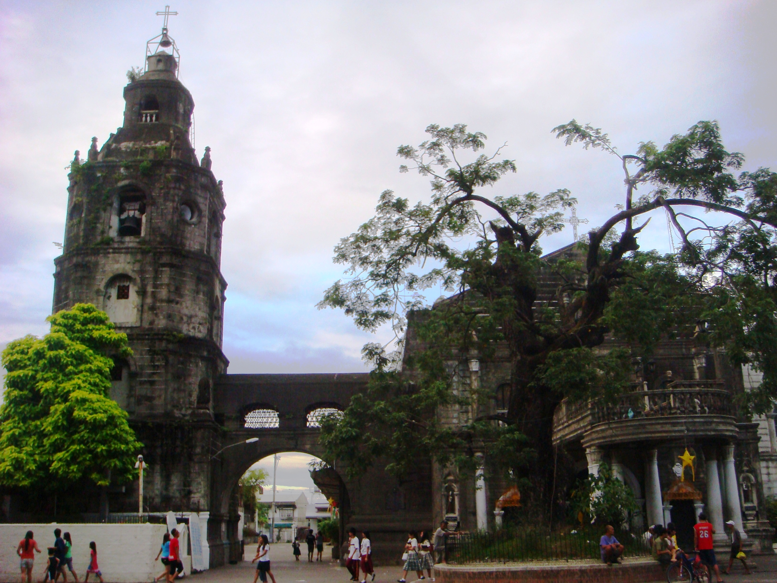 The 1578 Parish Church of St. Francis of Assisi and the patio (almost sunset photo).